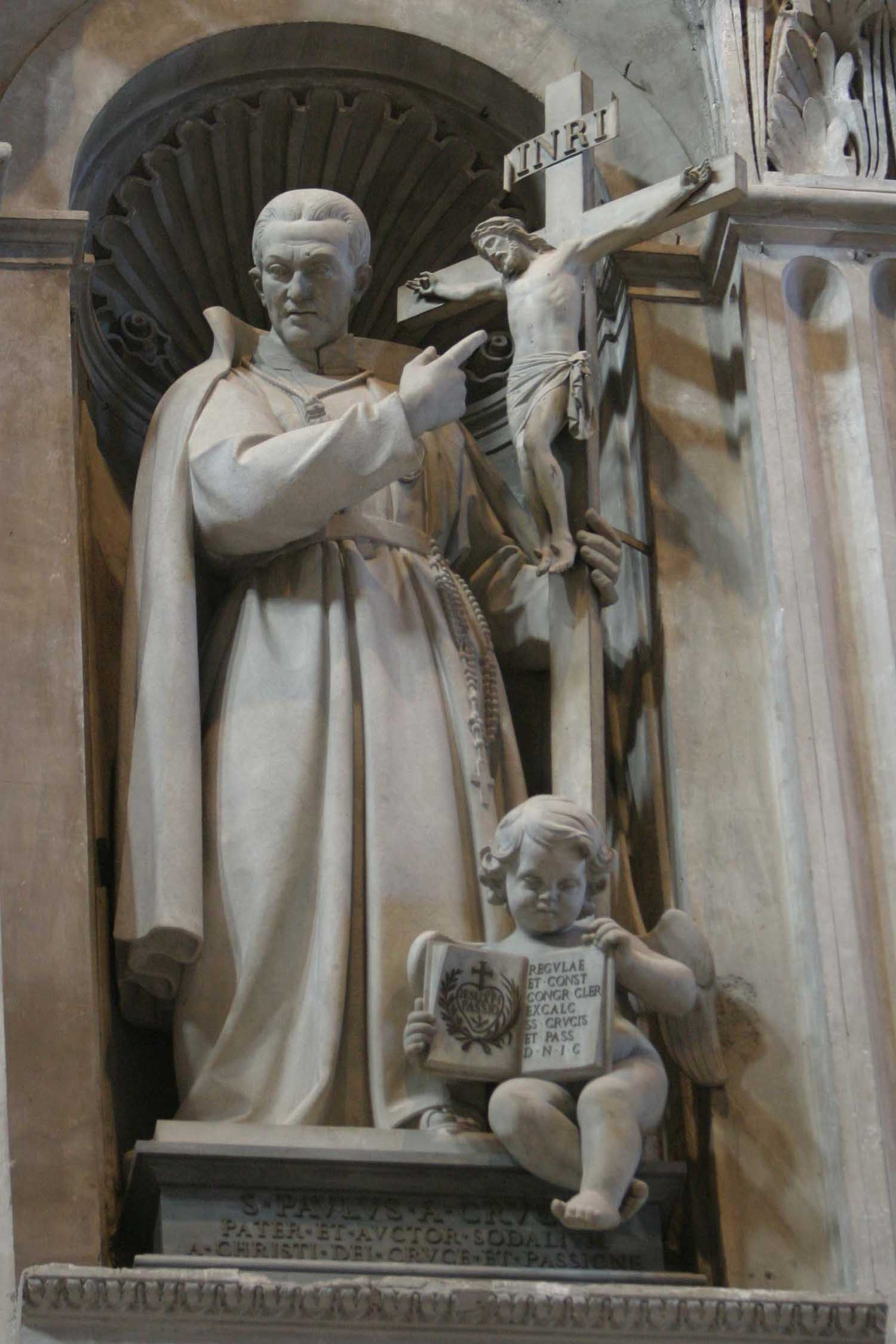 Statue of Saint Paul of the Cross, at the Vatican Basilica of S. Peter. By Ignazio Iacometti, 1876